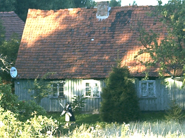 Neighbourhood